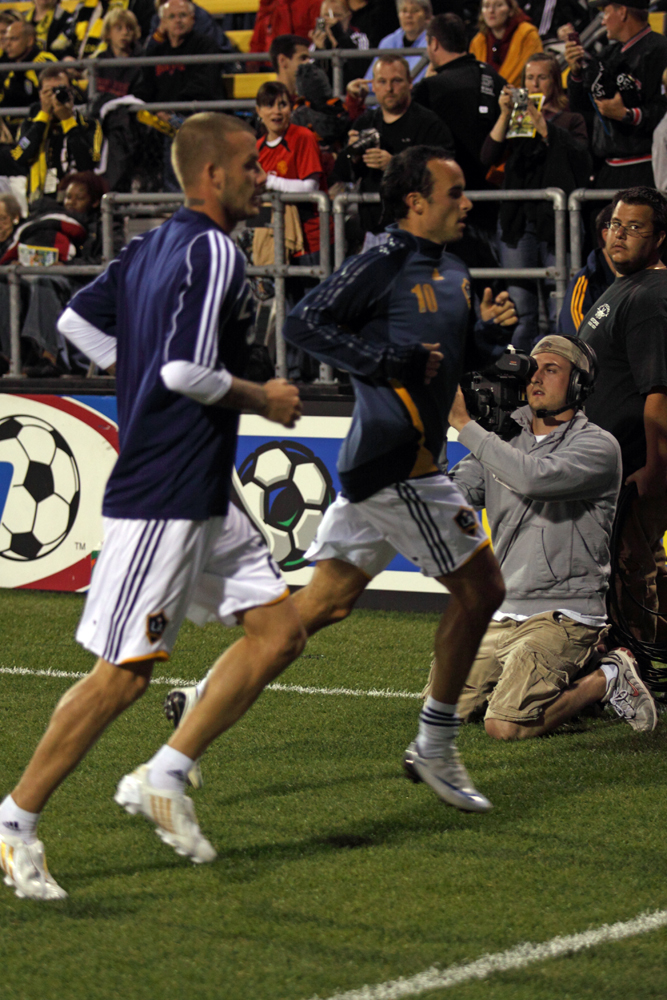 Beckham warming up pior to a LA Galaxy game